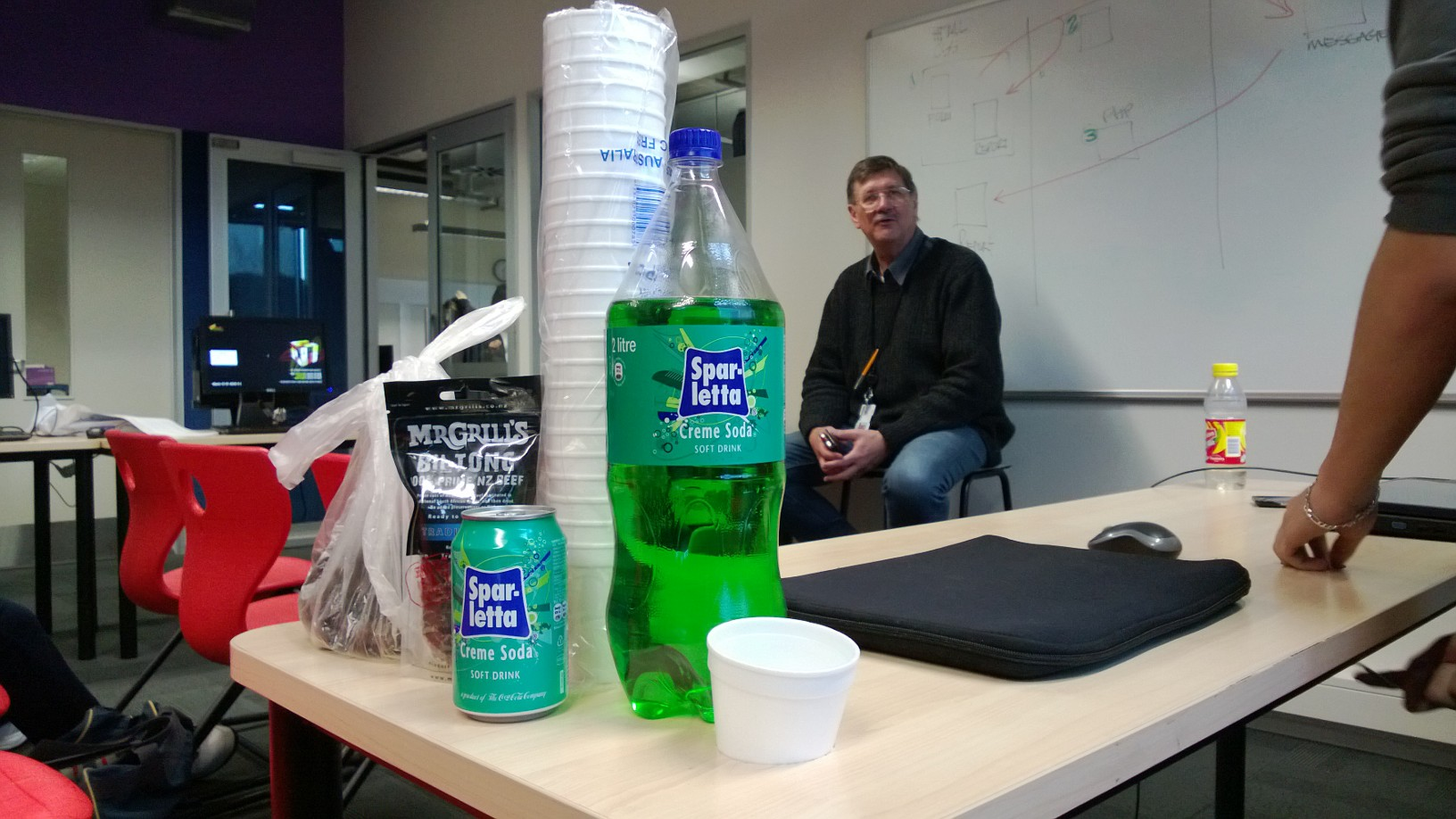 A biltong bonanza in session.